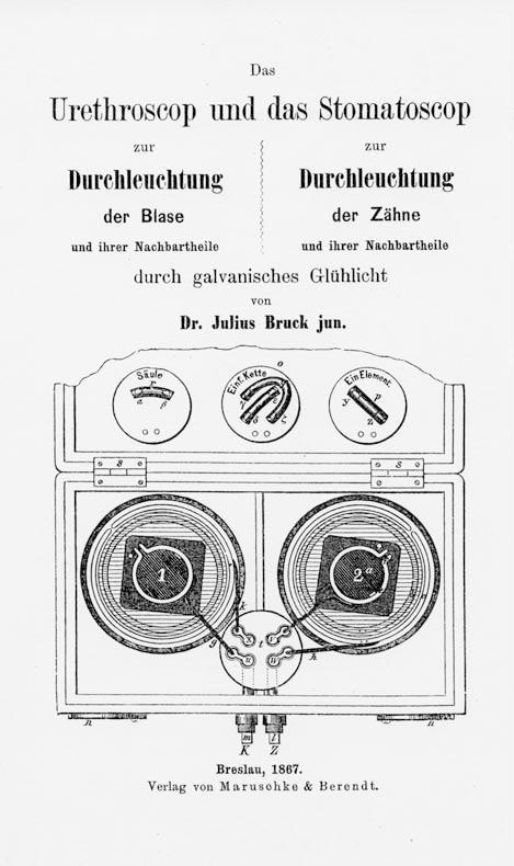 Title page of "Das Urethroscop zur Durchleuchtung der Blase und ihrer Nachbartheile und das Stomatoscop zur Durchleuchtung der Zähne und ihrer Nachbartheile durch galvanisches Glühlicht". Breslau: Maruschke & Berendt 1867